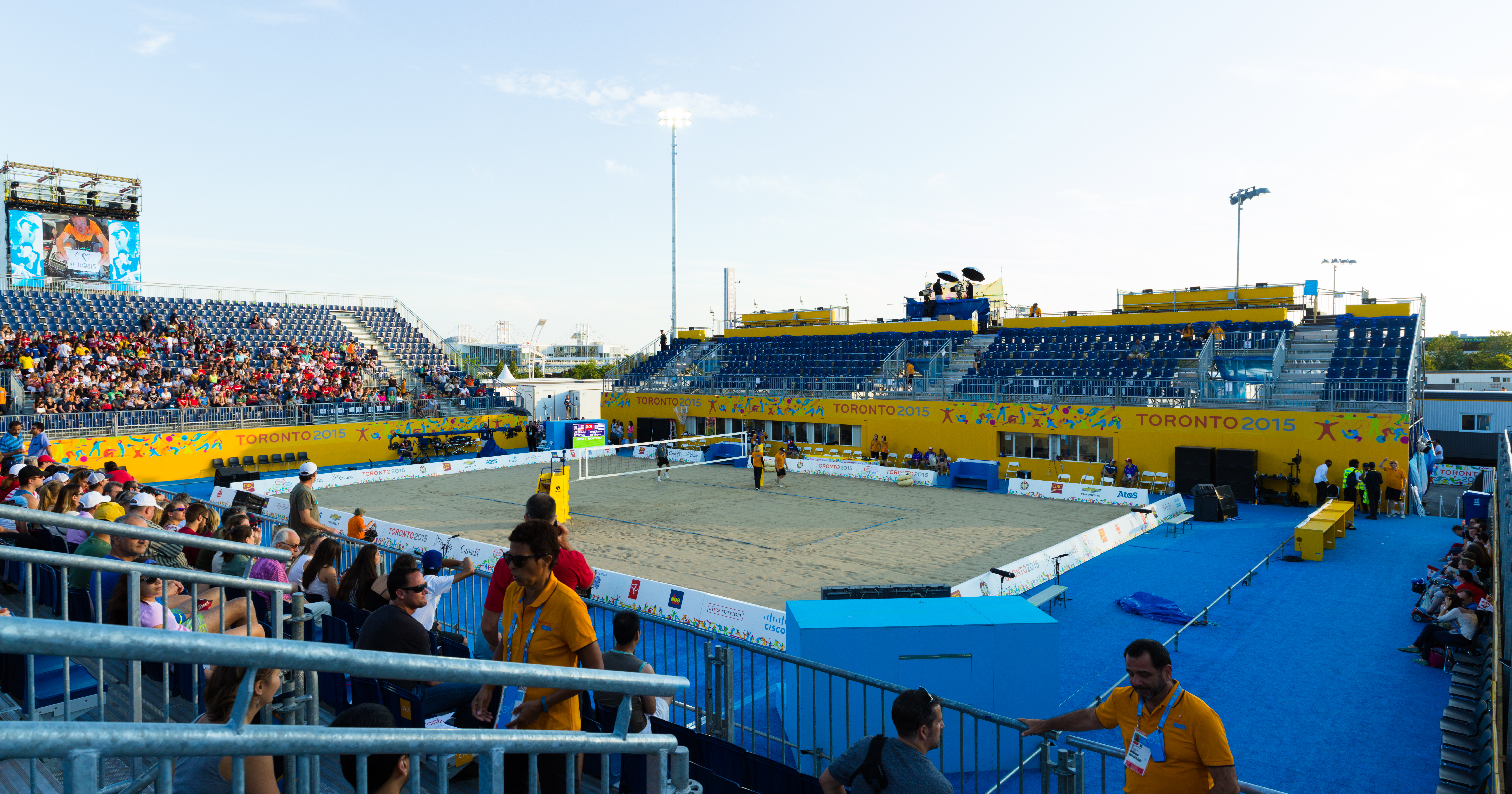 The Pan Am beach volleyball center in Toronto, Canada during the games. After the games the venue was dismantled.